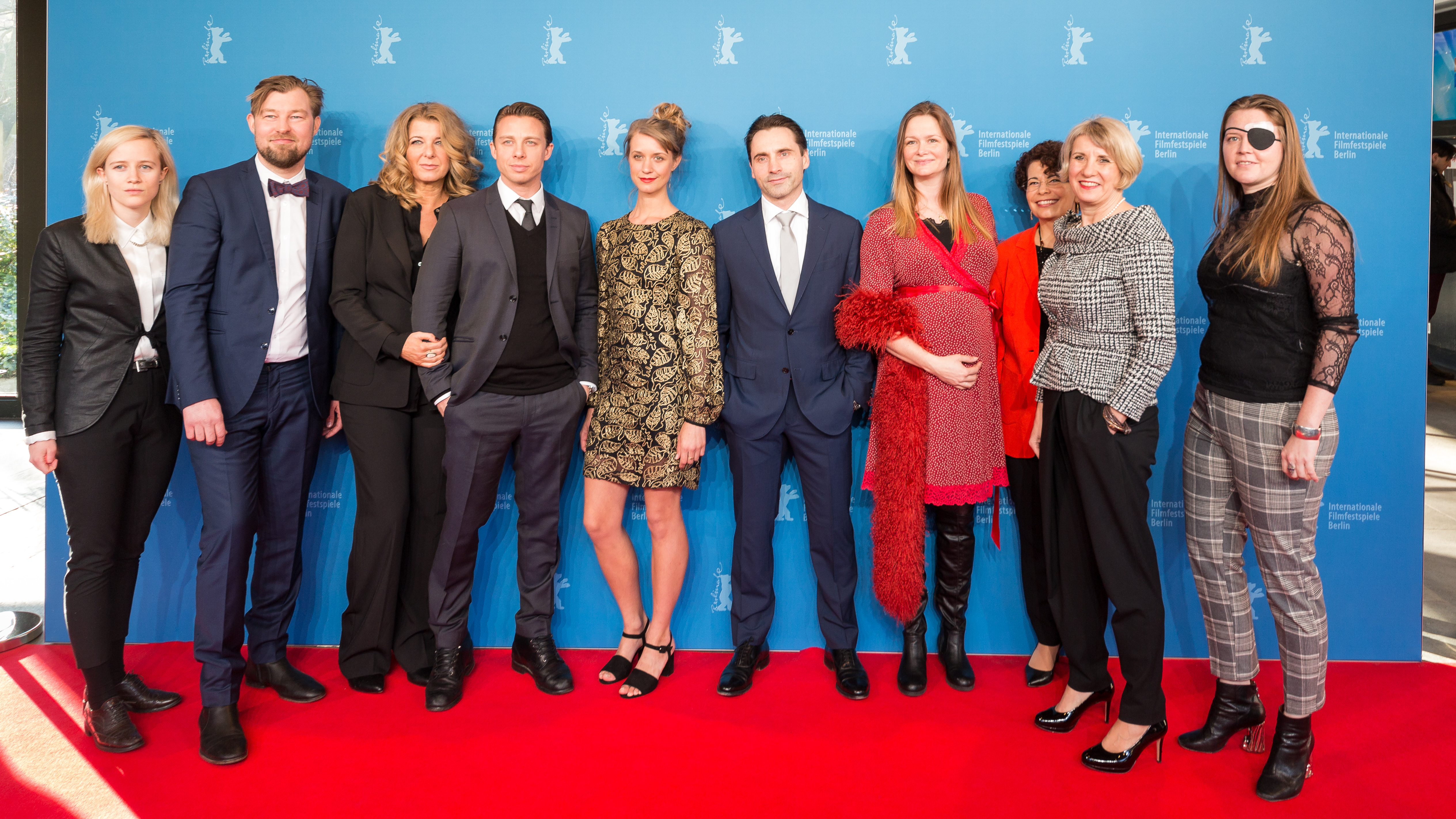 The film team of danish series Gidseltagningen (Below the Surface) at the Berlinale 2017